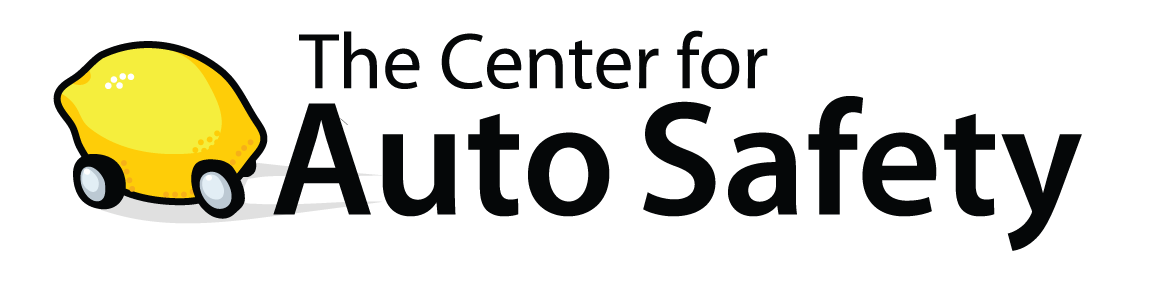 Our company logo